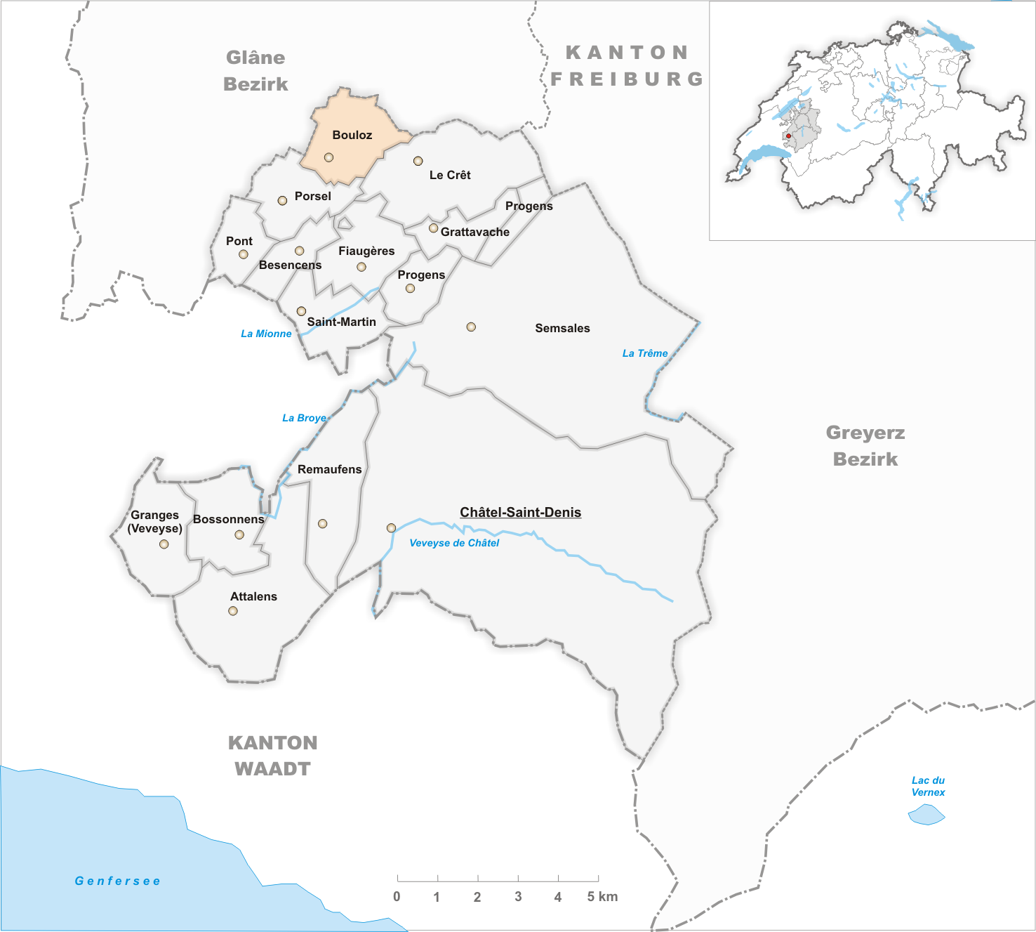 Municipality Bouloz Artist: Tschubby